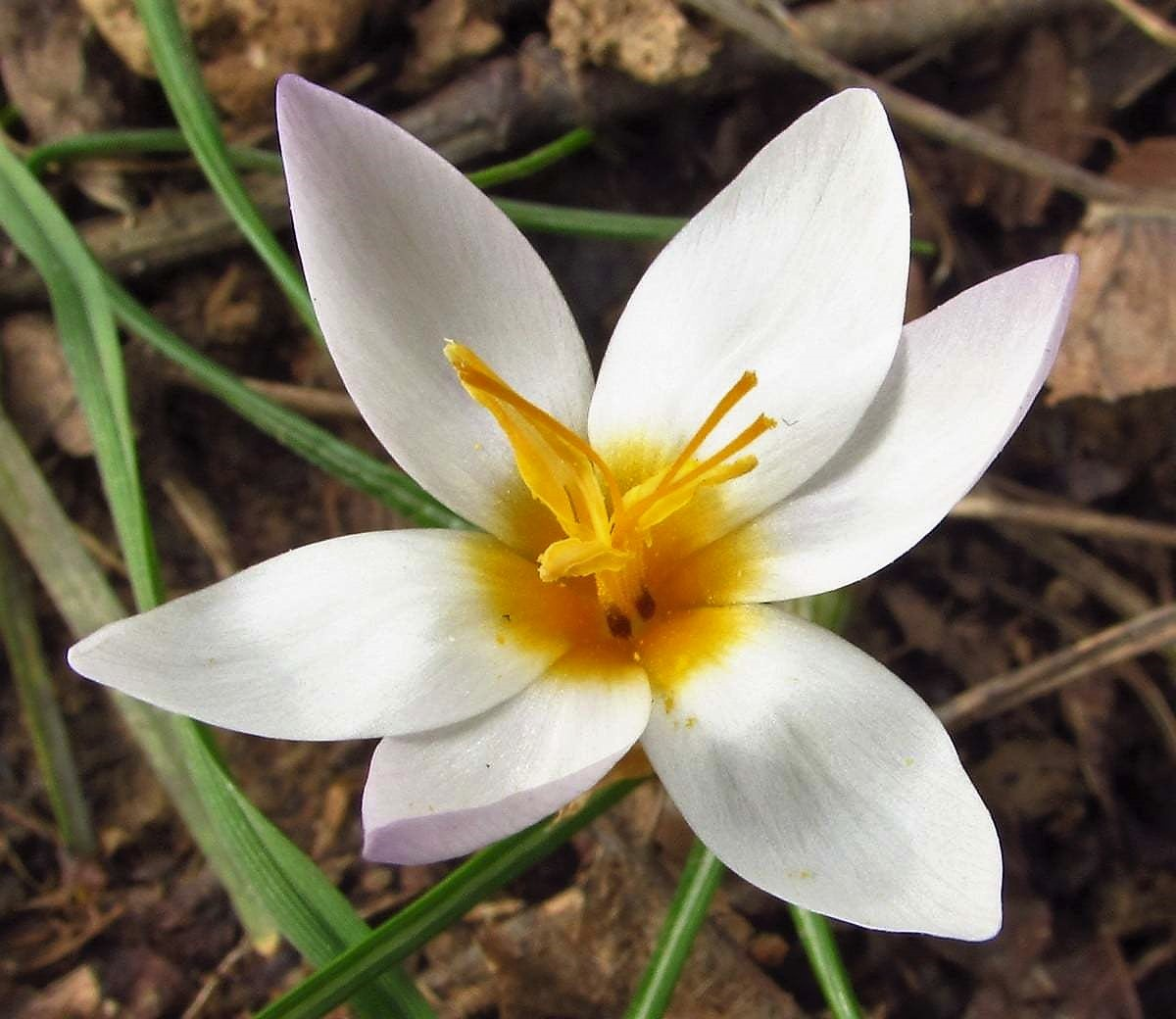 Crocus pestalozzae flower